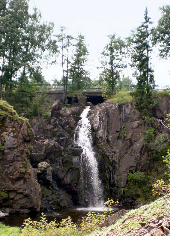 Stalpet, Aneby 2011